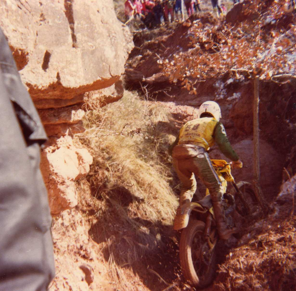 Peter Van Enckevort riding his yellow OSSA TR 80 at XV "Trial de Sant Llorenç" in Mura (Catalonia) on February 22, 1981. It was the first race of the Trial World Championship. He finished 61st.